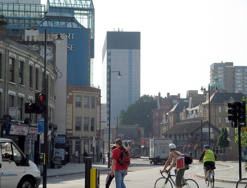 Old Street, London, photographed by Will Fox in 2005; with some rather crude subsequent adjustment in Gimp